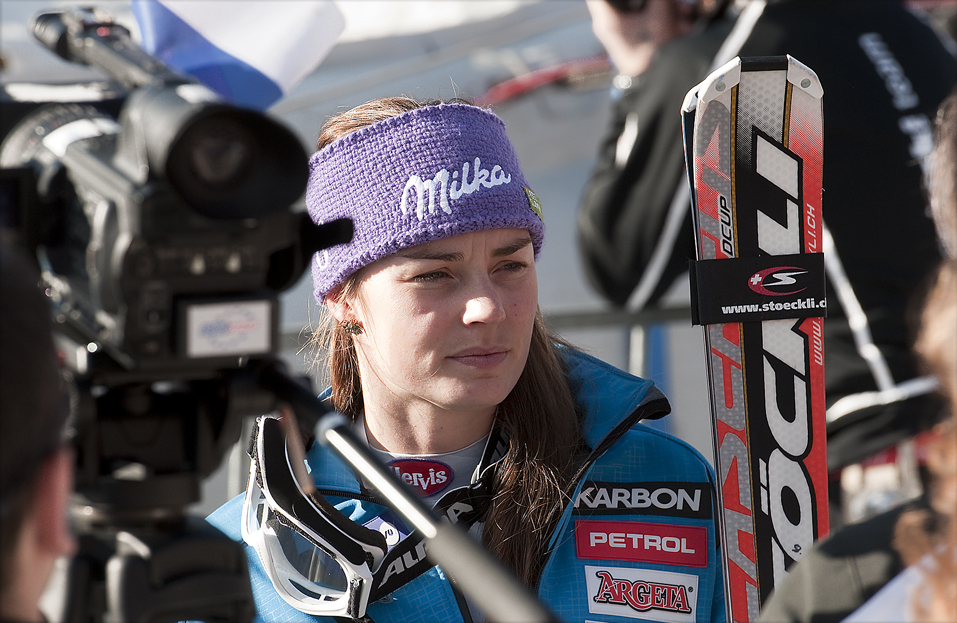 Zlata lisica 2011